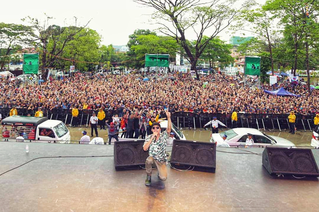 Yair Yint Aung is famous singer and actor from Myanmar.